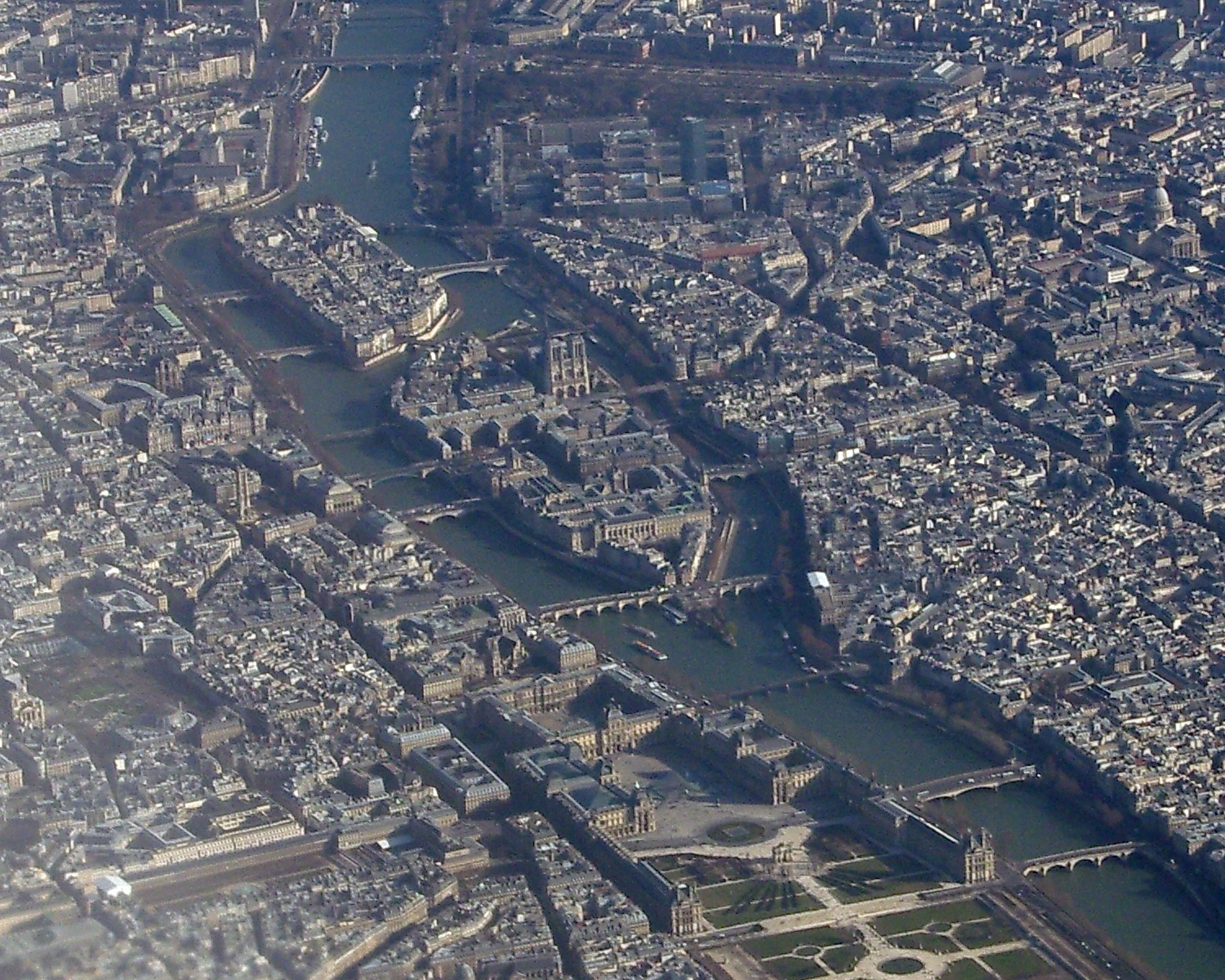 Paris, Île de la Cité, Île St. Louis, Jussieu, Jardin des Plantes, Panthéon, Quartier Latin, Louvre, Palais Royal, Les Halles, Hôtel de Ville